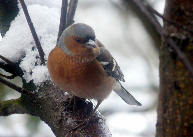 Male Chaffinch, Inshriach